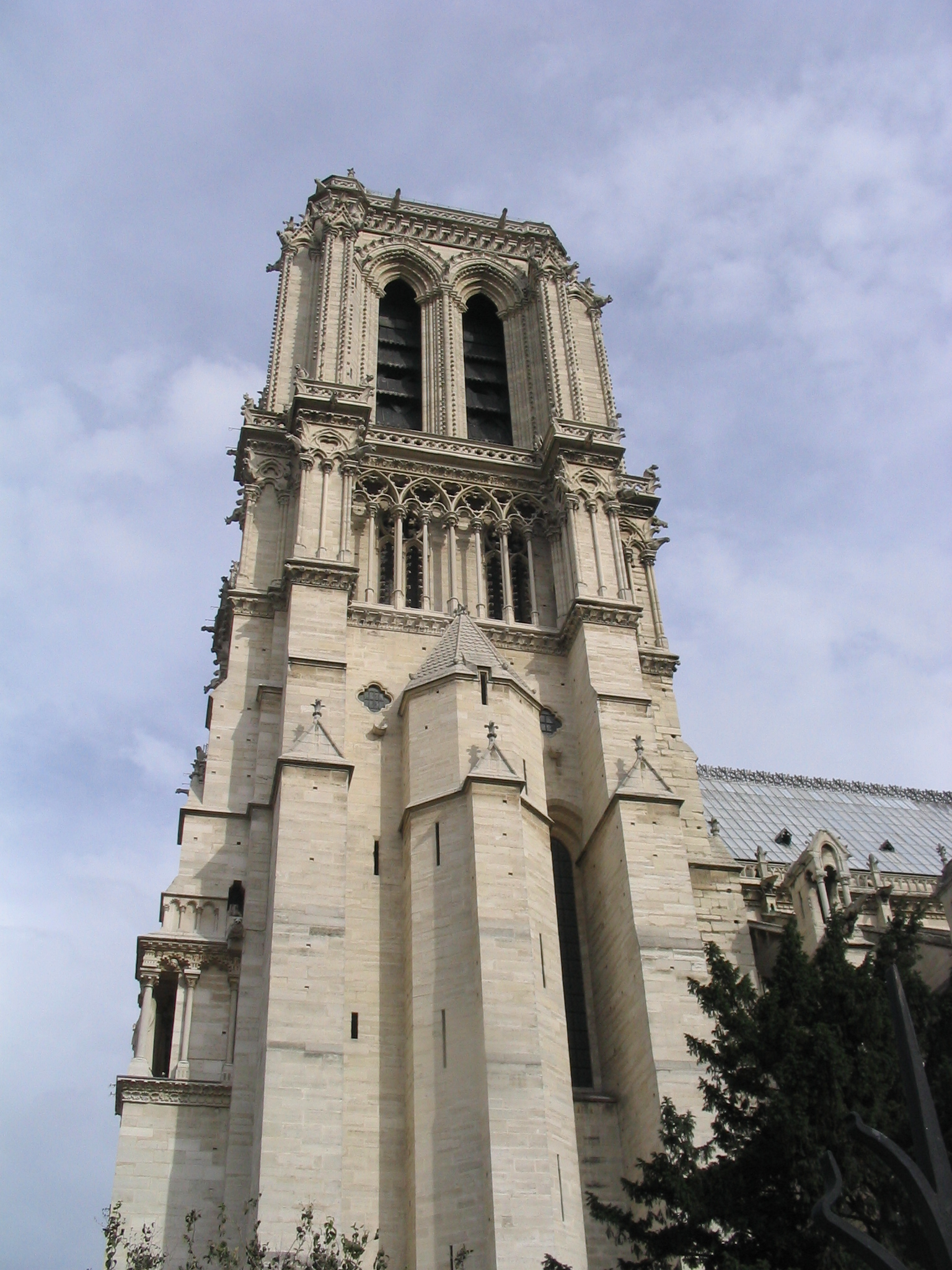 South Bell tower of western facade of Notre-Dame de Paris.